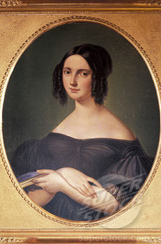 Virginia Vasselli, wife of Gaetano Donizetti, c. 1820